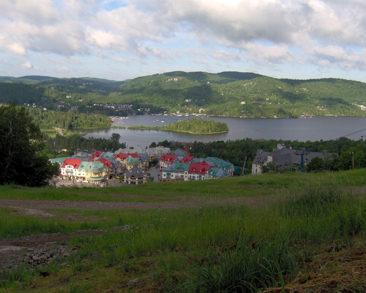 Mont Tremblant resort, from mountain 1/3 ascension, partly cloudy